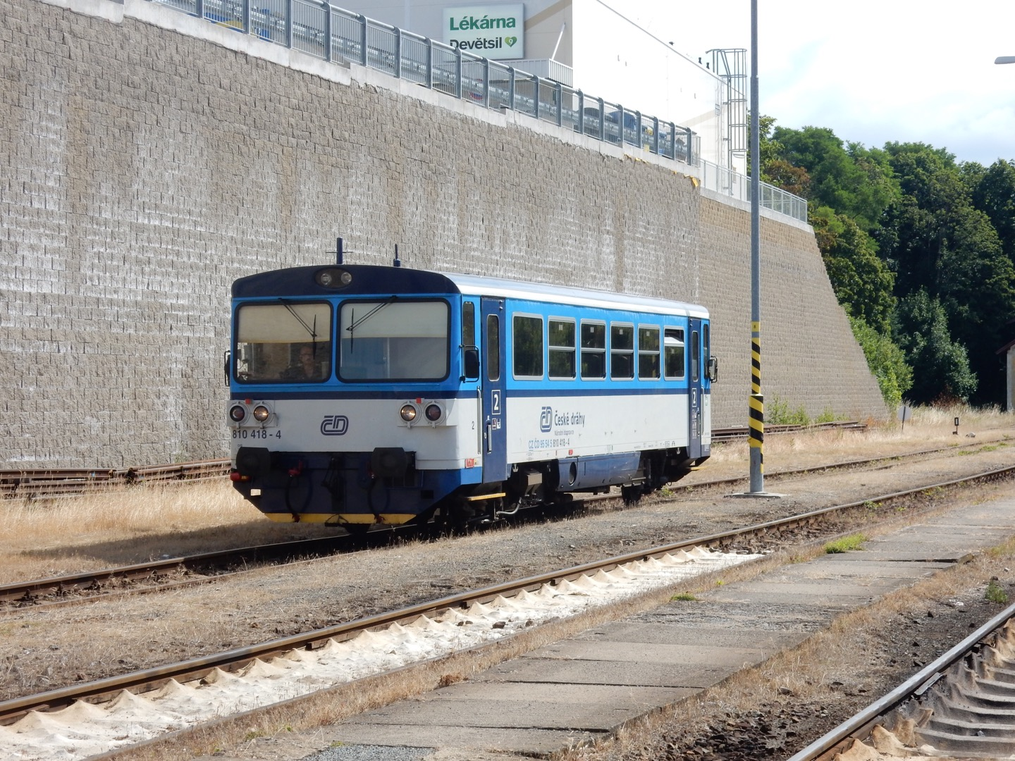 ČD 810 DMU at Tachov station